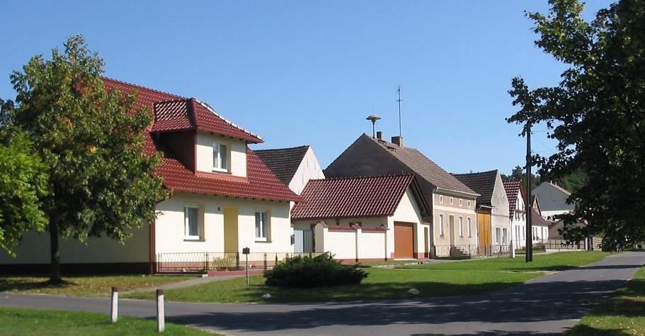 Villagestreet in Oberjünne. The village Oberjünne is a part of the municipality Planebruch in the district Potsdam Mittelmark, state Brandenburg, Germany. All the other villages of Planebruch are situated on the northeast border of the Belziger Landschaftswiesen/„Baruther Urstromtal“ (glacial valley)/Naturpark Hoher Fläming subplateau Zauche. Only Oberjünne is located in the Zauche.